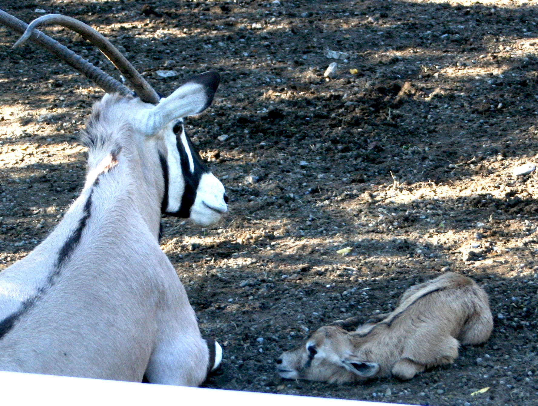 A baby Gemsbok (Oryx gazella), roughly 4 hours old, with its mother. At the Buffalo Zoo.